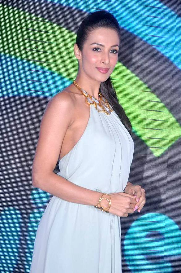 Malaika Arora launches Swipe Tablet